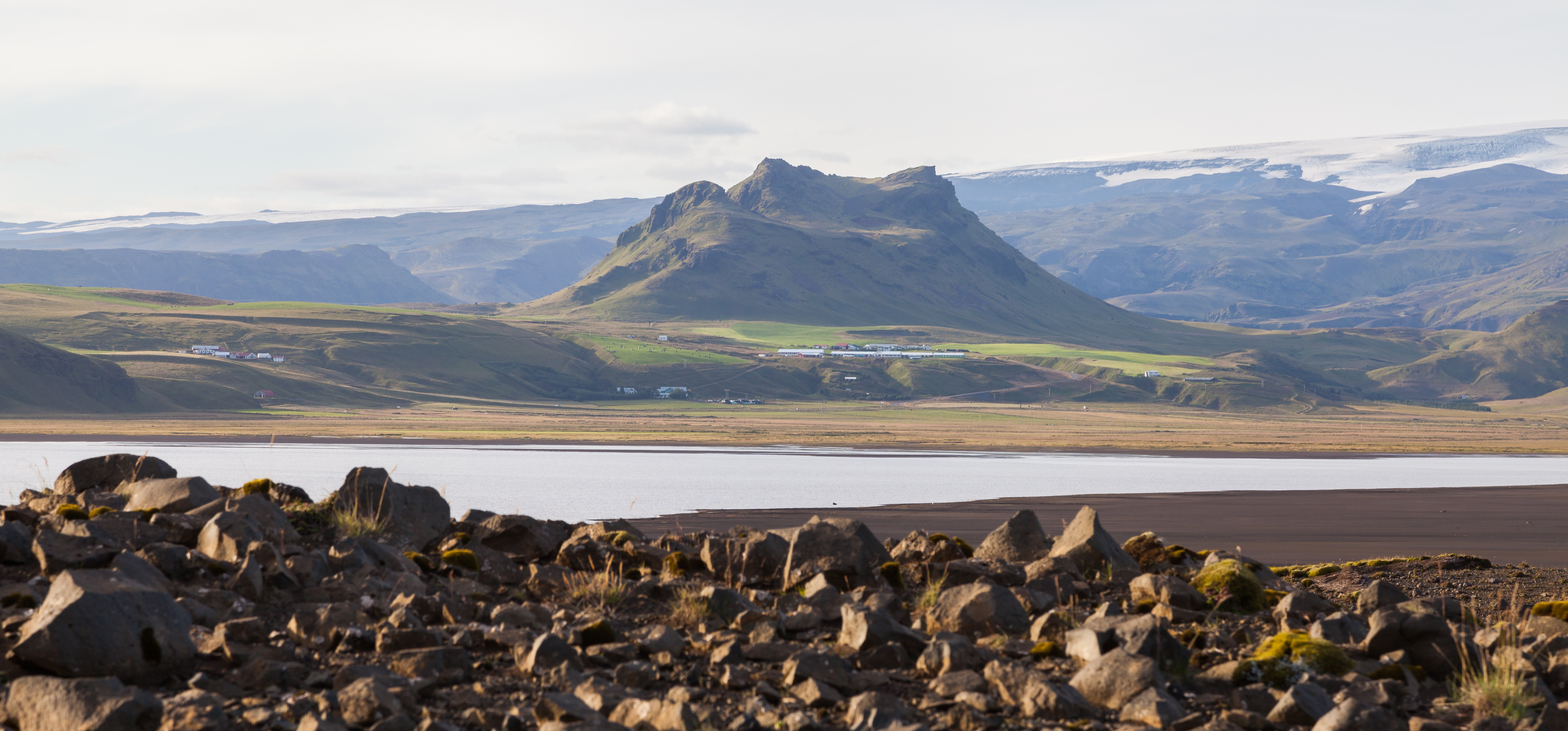 Reynisfjara, Suðurland, Iceland